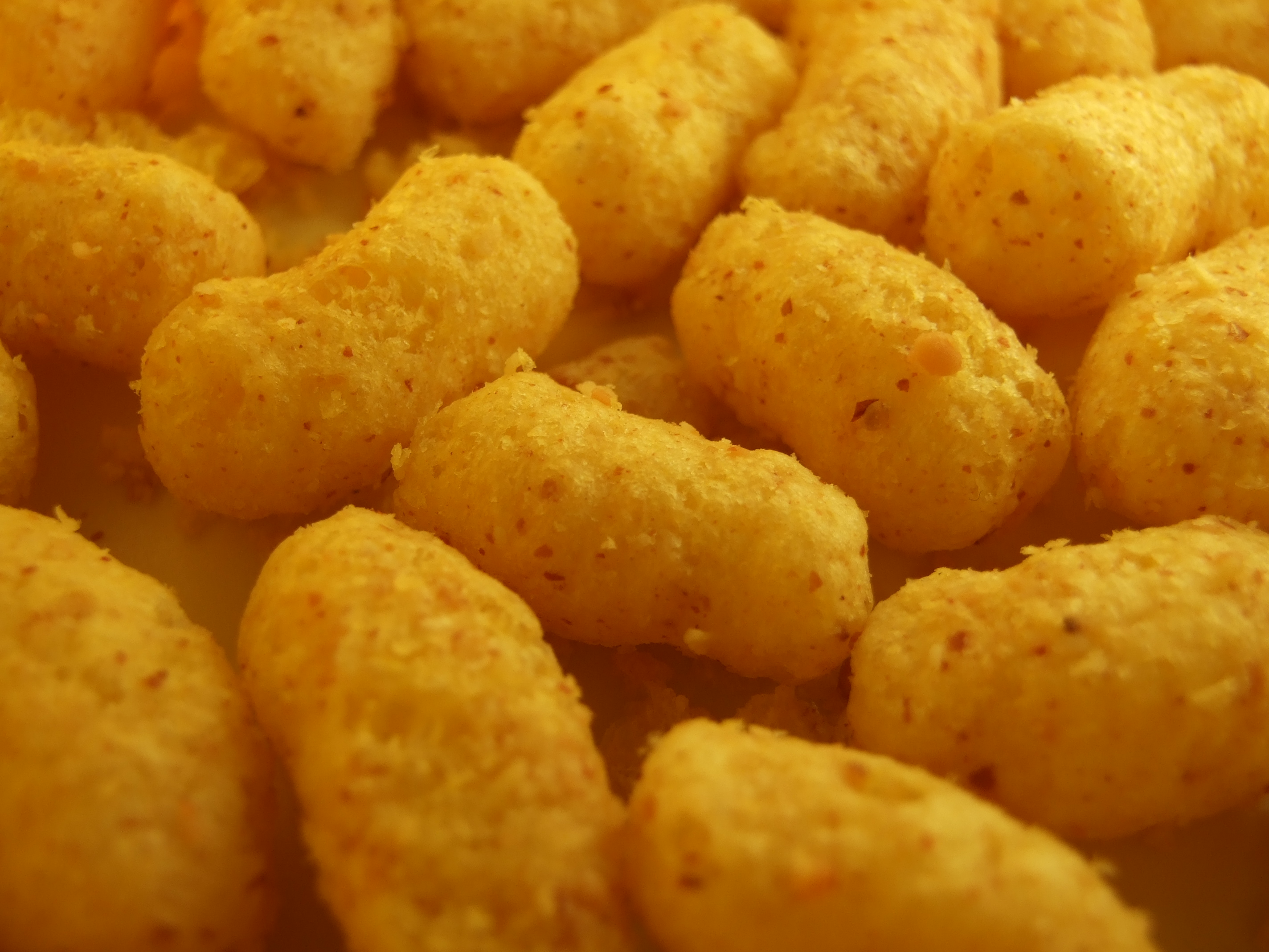 Peanuts maize chips